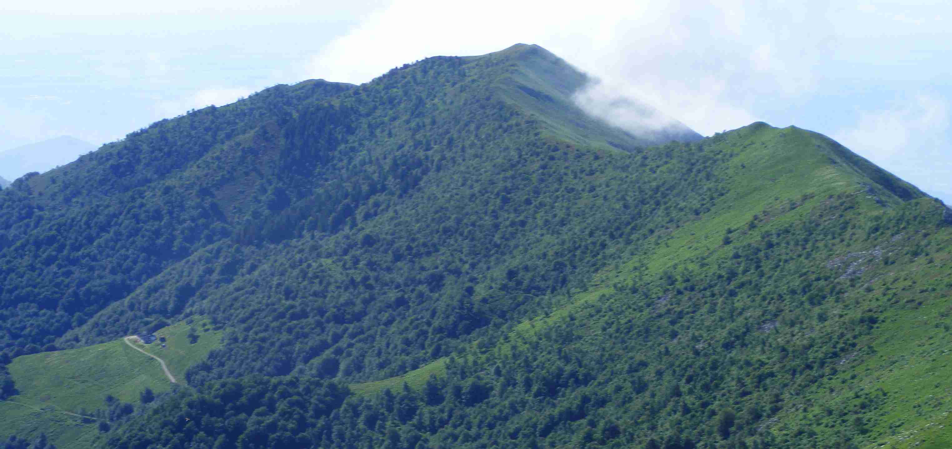 Monticchio and Colma Bella from Cima del Bonom (BI, Italy)